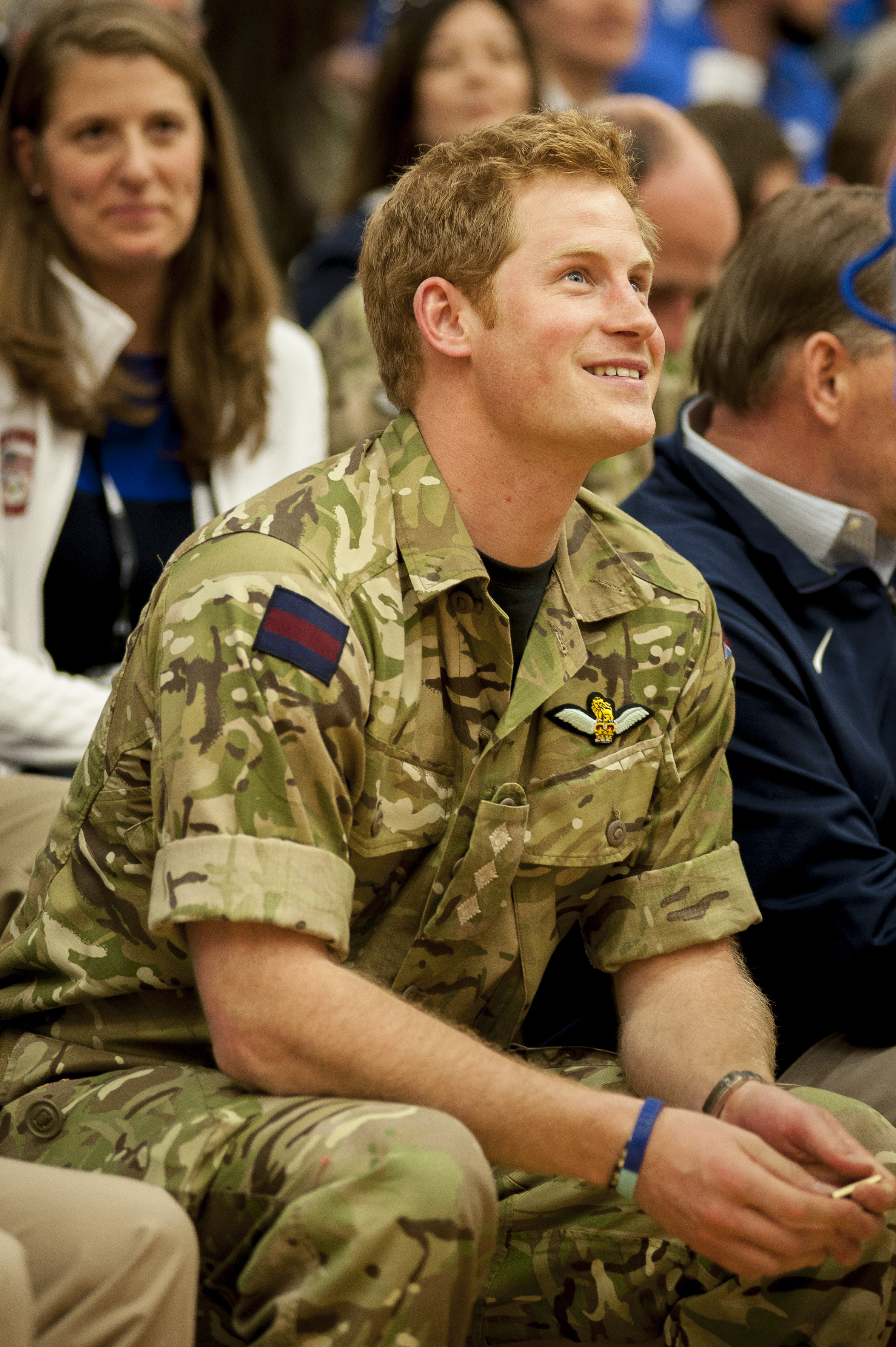 Prince Harry of Wales watches the Marine Corps Silent Drill Platoon perform at the opening ceremony of the Wounded Warrior Games 2013 in Colorado Springs, Colo., May 11. Roughly 80 Marines from Marine Barracks Washington, D.C., participated in the ceremony.